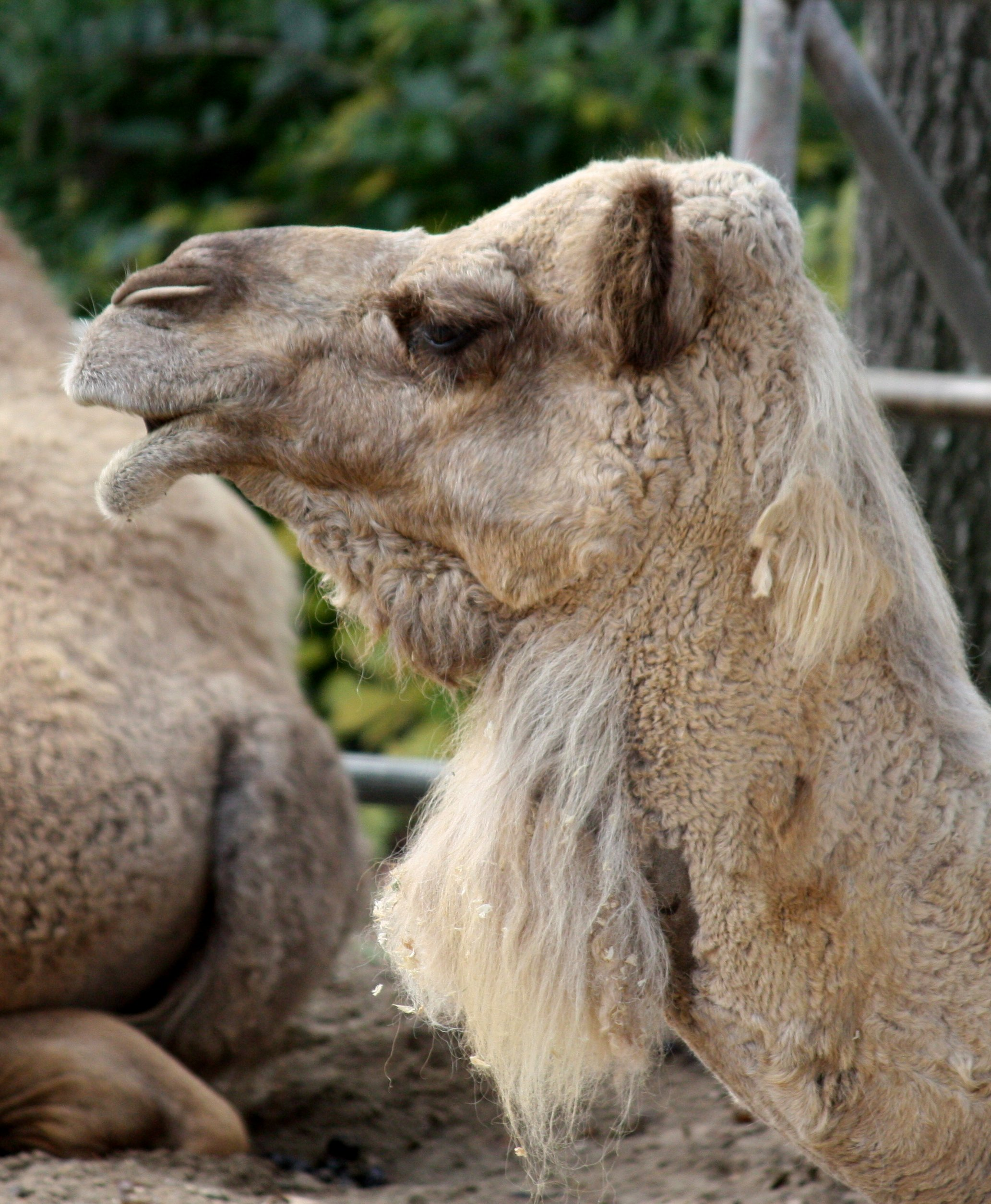 Dromedary Camel at Louisville Zoo